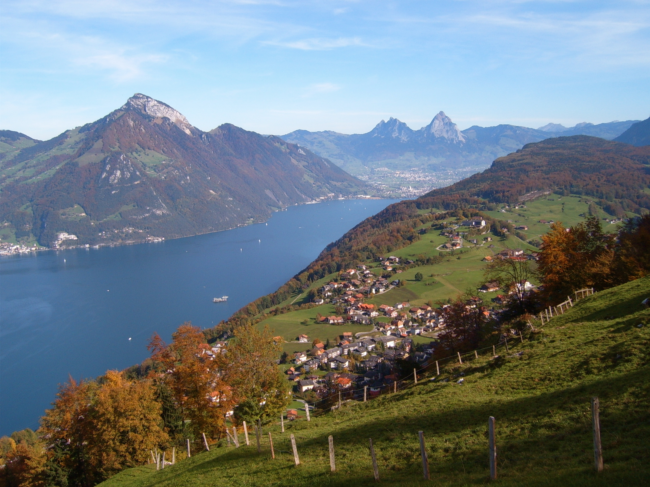 Emmetten with Lake Lucerne and Mythen (Canton of Nidwalden, Switzerland)